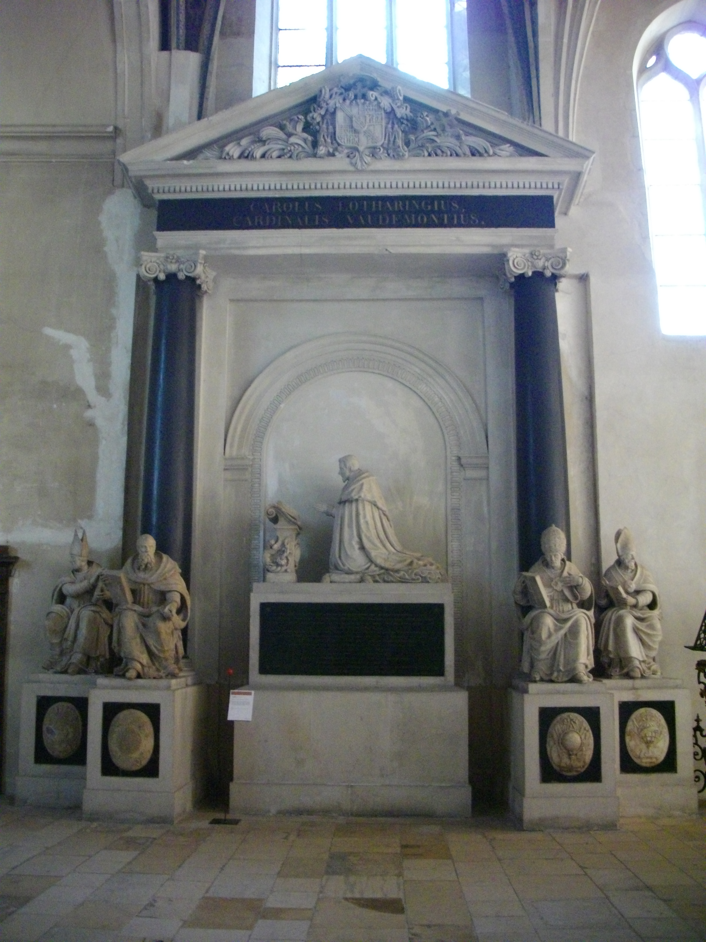 Tomb of Charles de Vaudémont (1561-1587), by Étienne Dupérac and Florent Drouin, 1588, in Cordeliers' church of Nancy